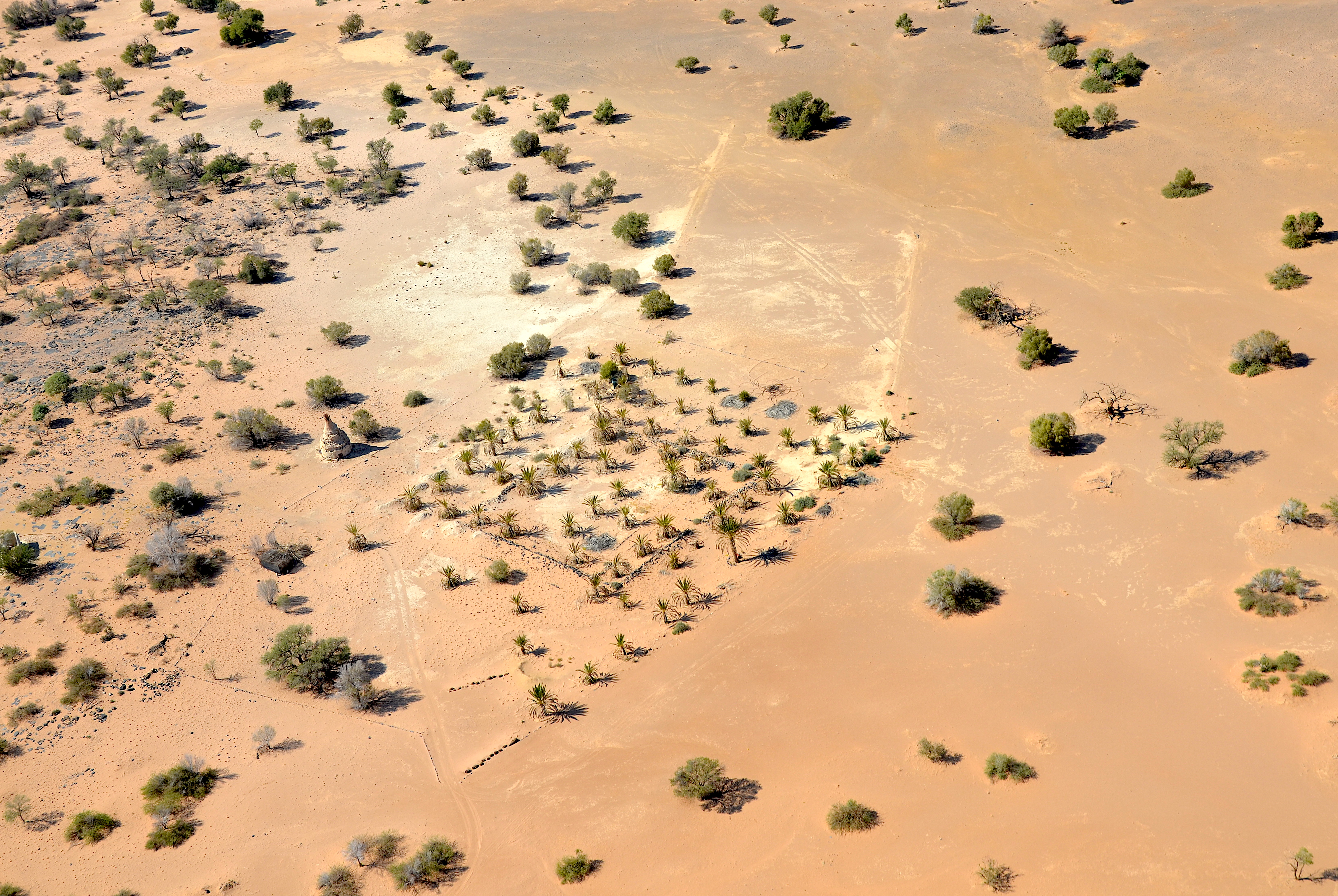 Aerial view of old lime kiln near Simplon in Namibia (2017)